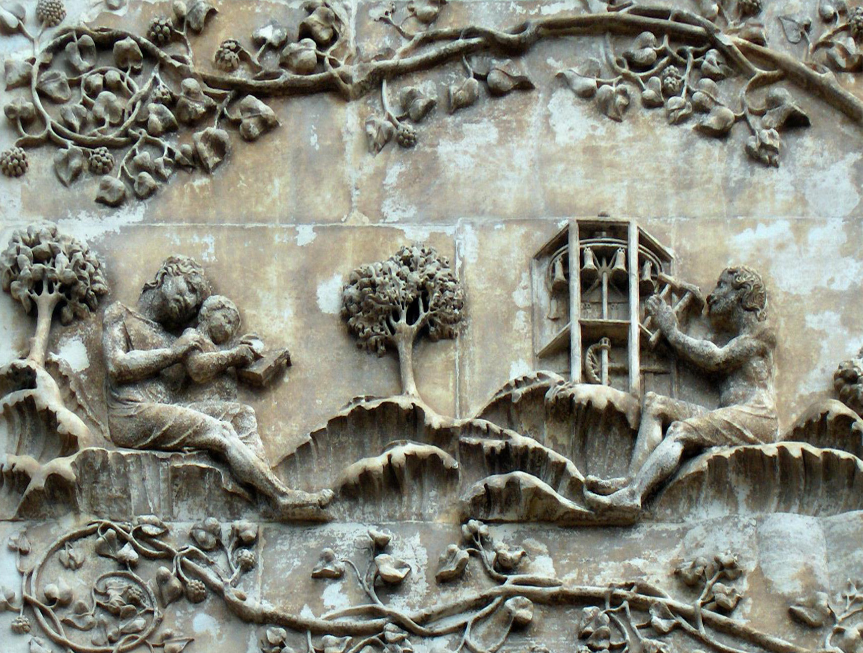 Genesis : Marble bas-relief "The Arts of the Trivium and Quadrivium : Naomi teaches reading; Jubal, father of music", cathedral of Orvieto, Italy